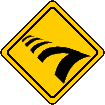 Own Work